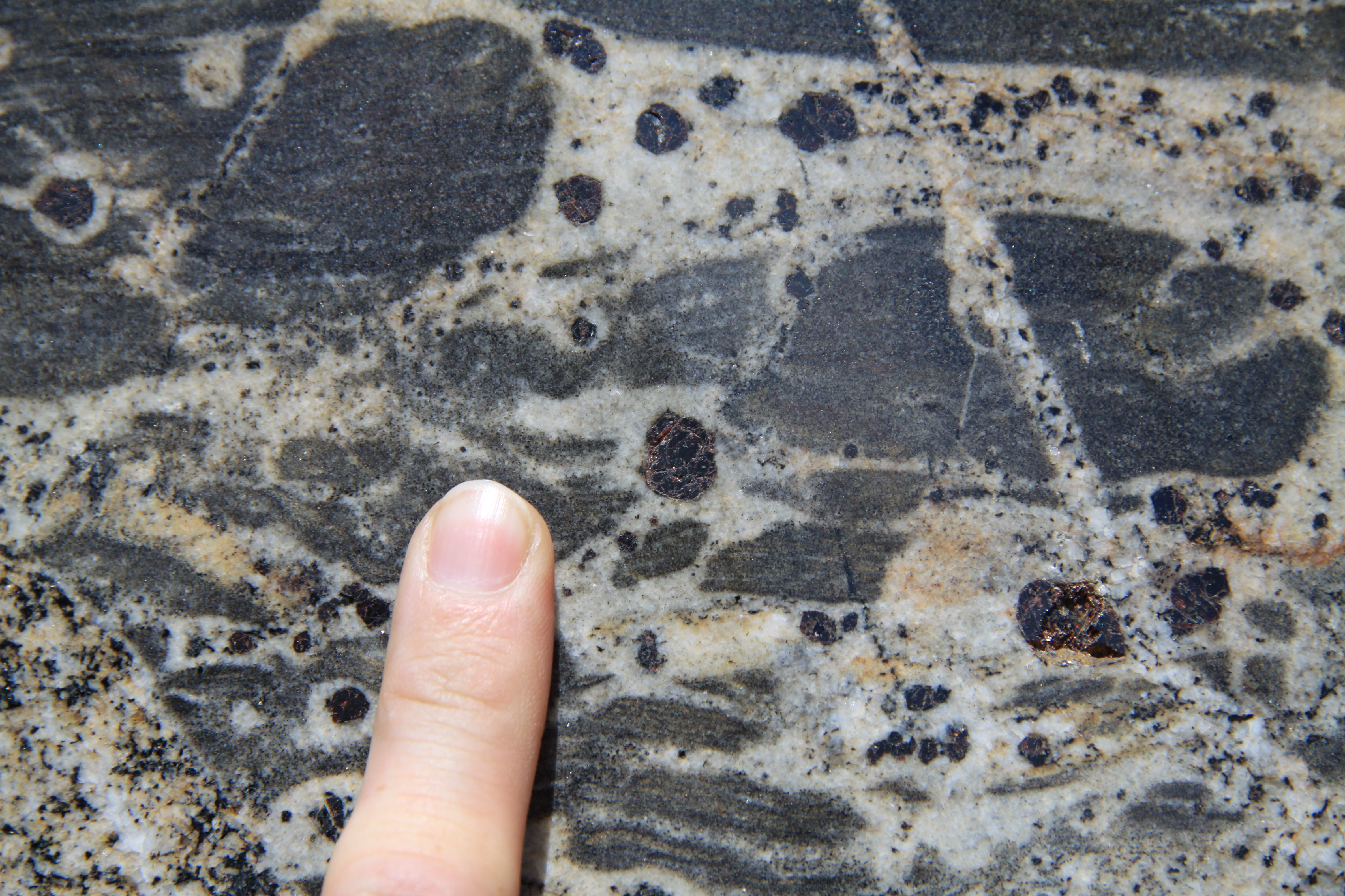 Natural monument Granátová skála in Tábor, Tábor District, Czech Republic - Google Maps - Google Earth